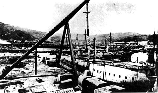 The ship after the launch in construction in La Spezia